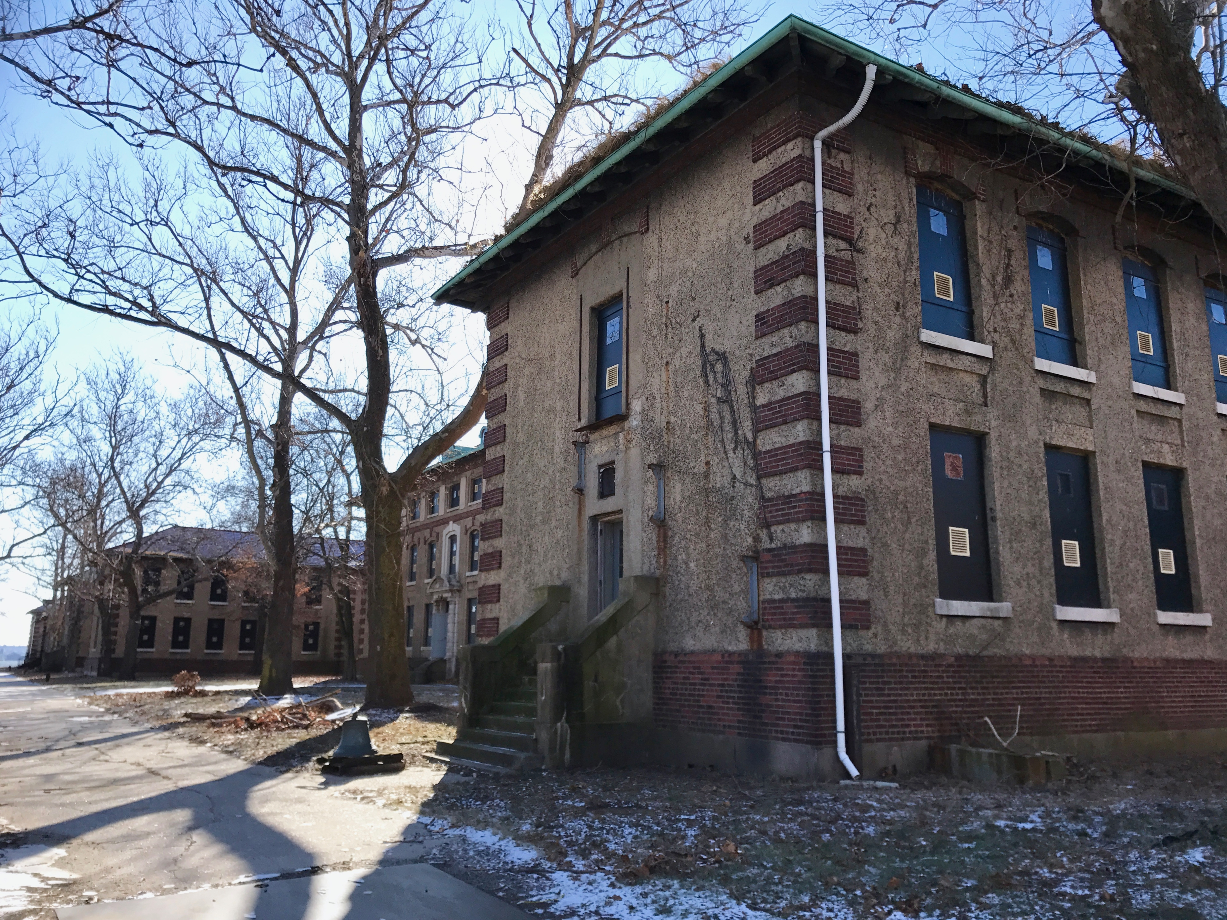 Exterior of the Island 3 of Ellis Island which housed the contagious disease hospital of the Ellis Island Immigrant Hospital.